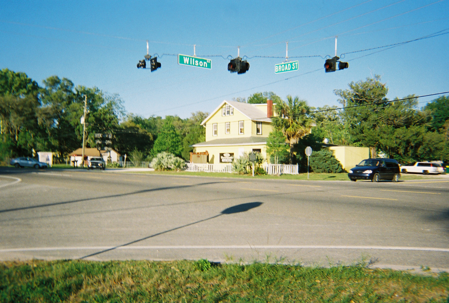 Cafe Masaryktown, a restaurant near a plaque on the history of Masaryktown, Florida on the northeast corner of U.S. Route 41 and Wilson Boulevard.